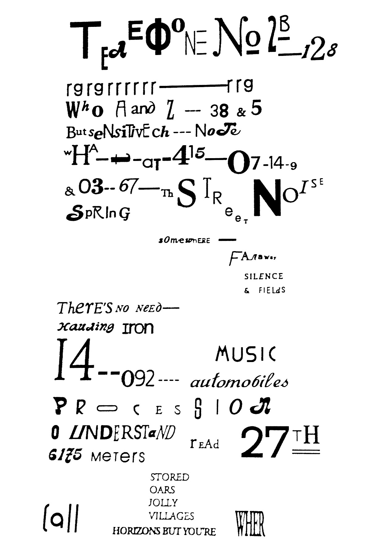 In 1992 Sergey Mavrody collaborated with Eduardo Kac on the visual translation of the Telephone from the Tango with Cows poems by the Russian poet Vasily Kamensky. Authors agreed to contribute the file to Wikipedia.